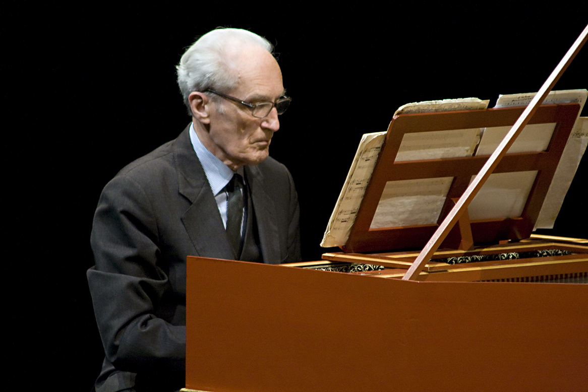 Gustav Leonhardt at the MAfestival in Bruges